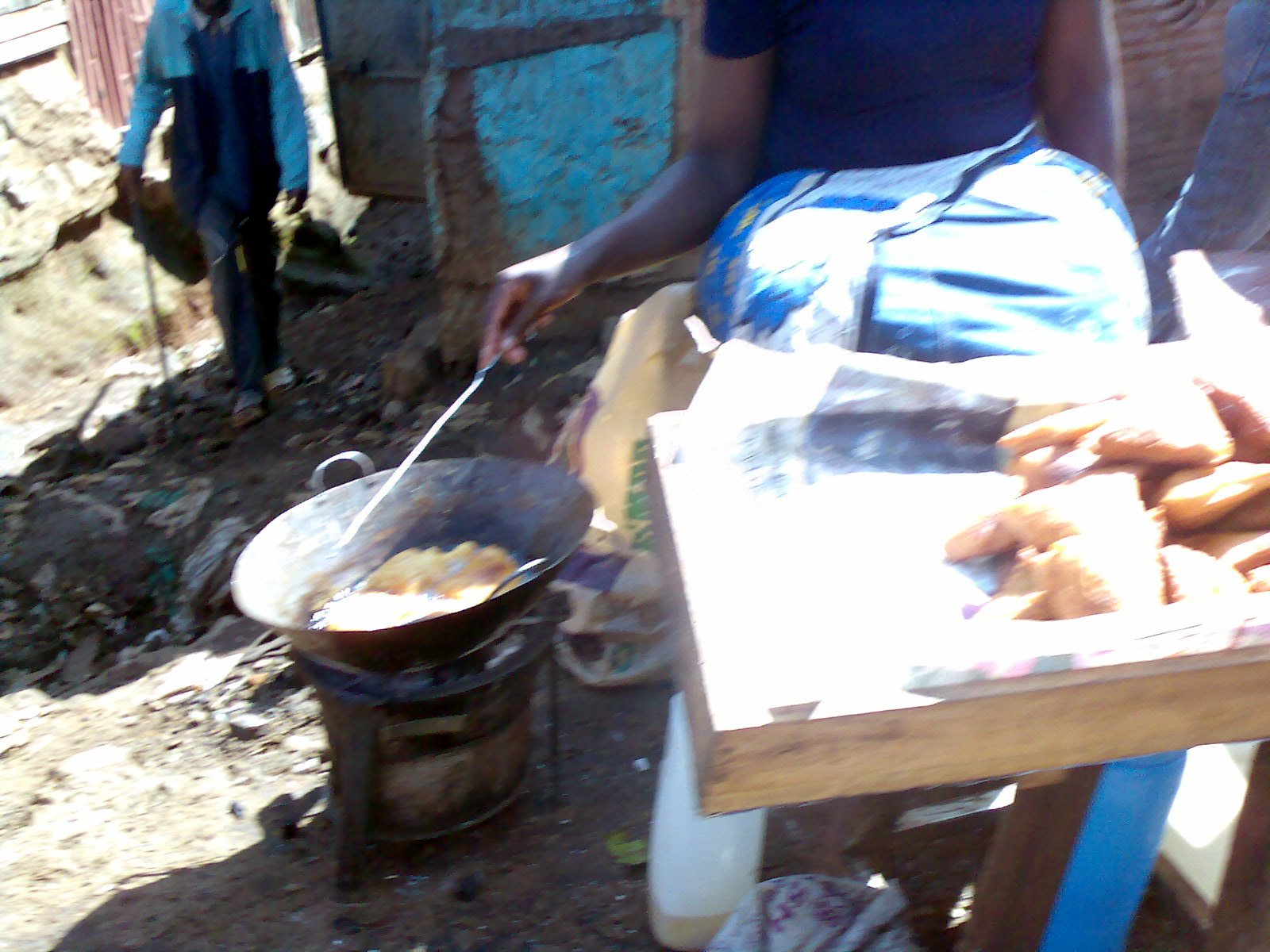 Mandazi (also known as maandazi, mahamri, or mamri) is a form of fried bread that originated in Eastern Africa in the Swahili coastal areas of Kenya and Tanzania